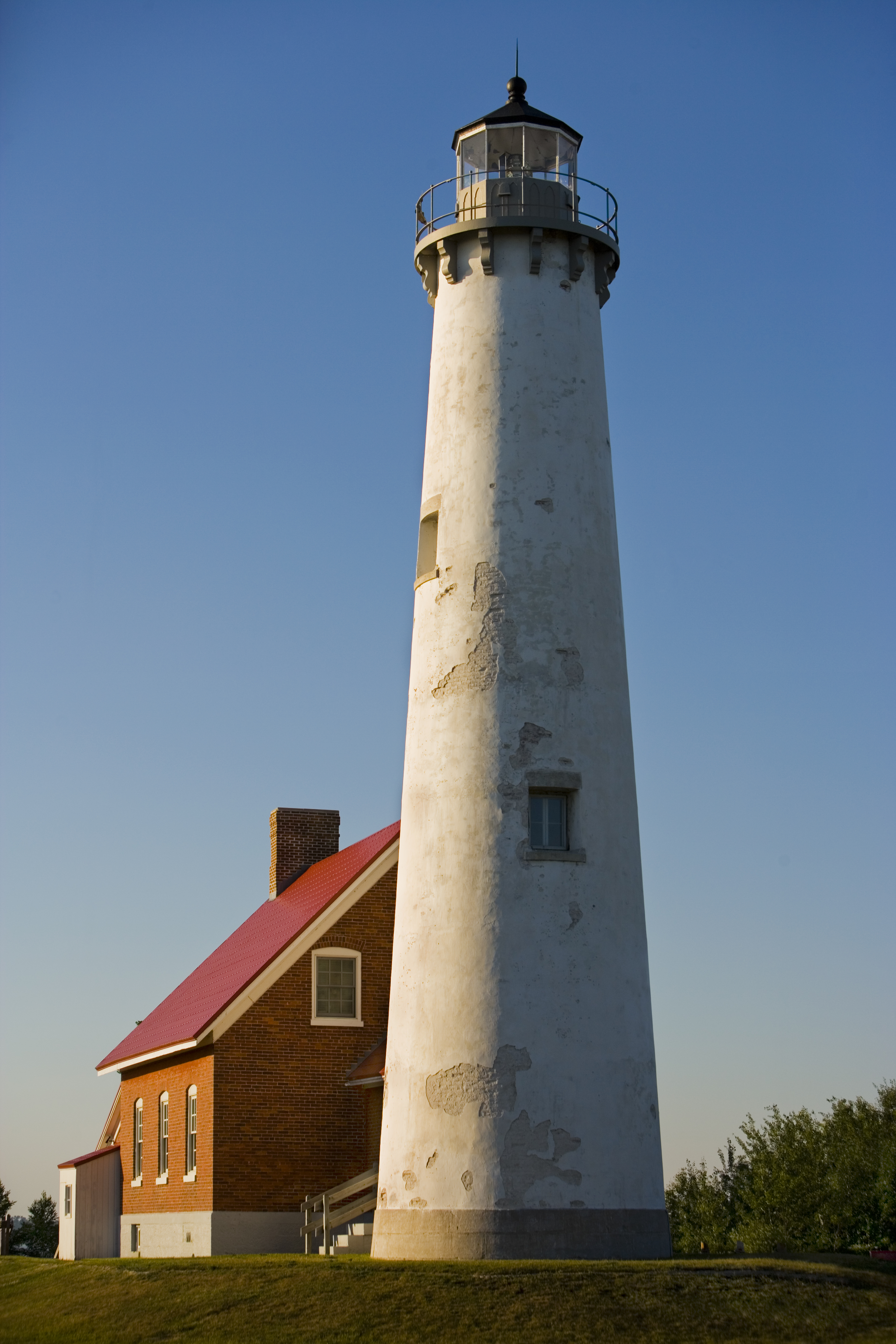 Tawas Point Light. Lighthouse located in Tawas Point State Park - Michigan, USA